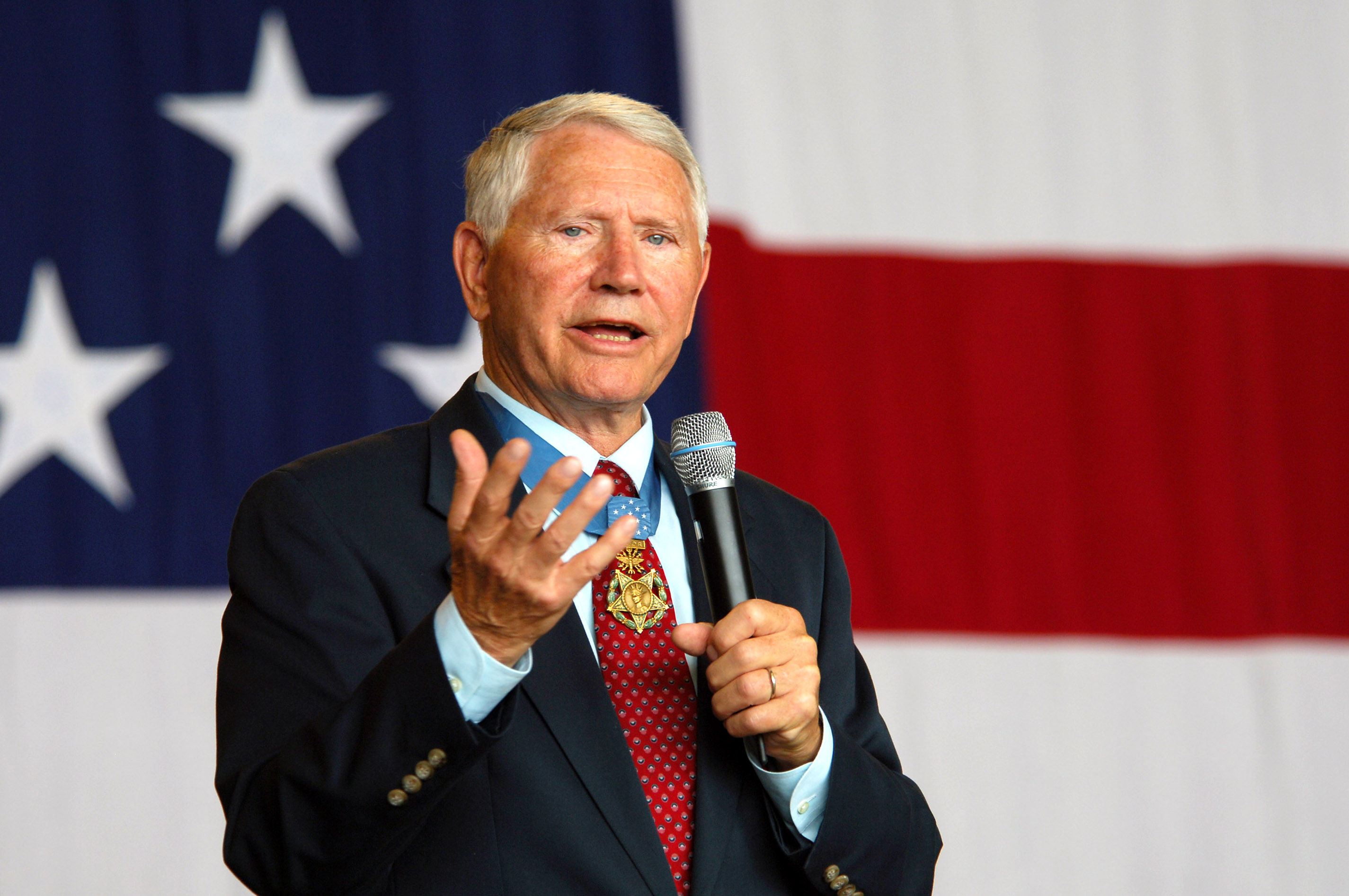 Retired Lt. Col. Leo Thorsness speaks at the U.S. Air Forces in Europe's Air Force 60th Anniversary celebration Aug. 11 Ramstein Air Base, Germany. Colonel Thorsness is a Medal of Honor recipient.